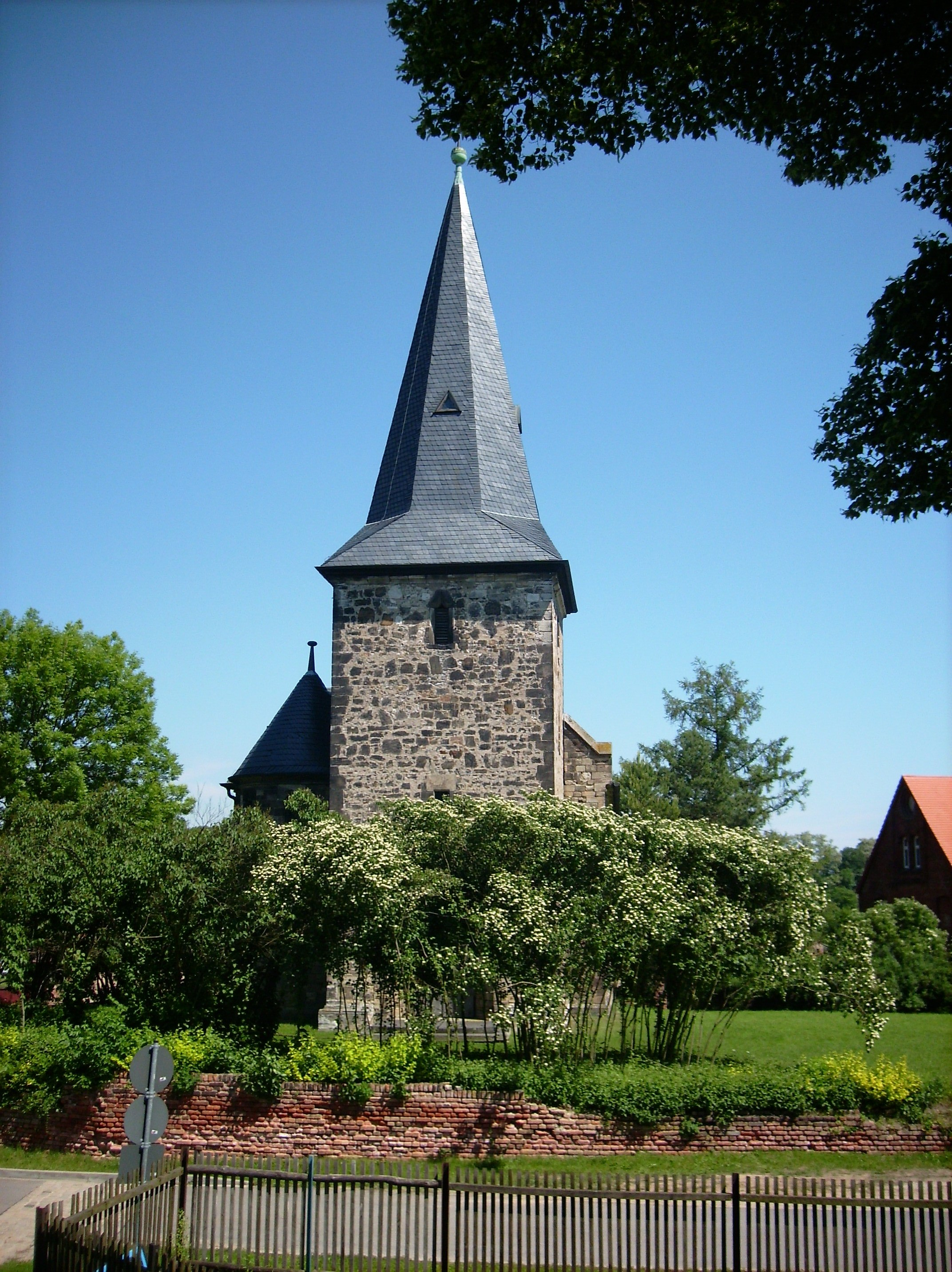 Church of the village of Poserna (Lützen, Burgenlandkreis, Saxony-Anhalt)